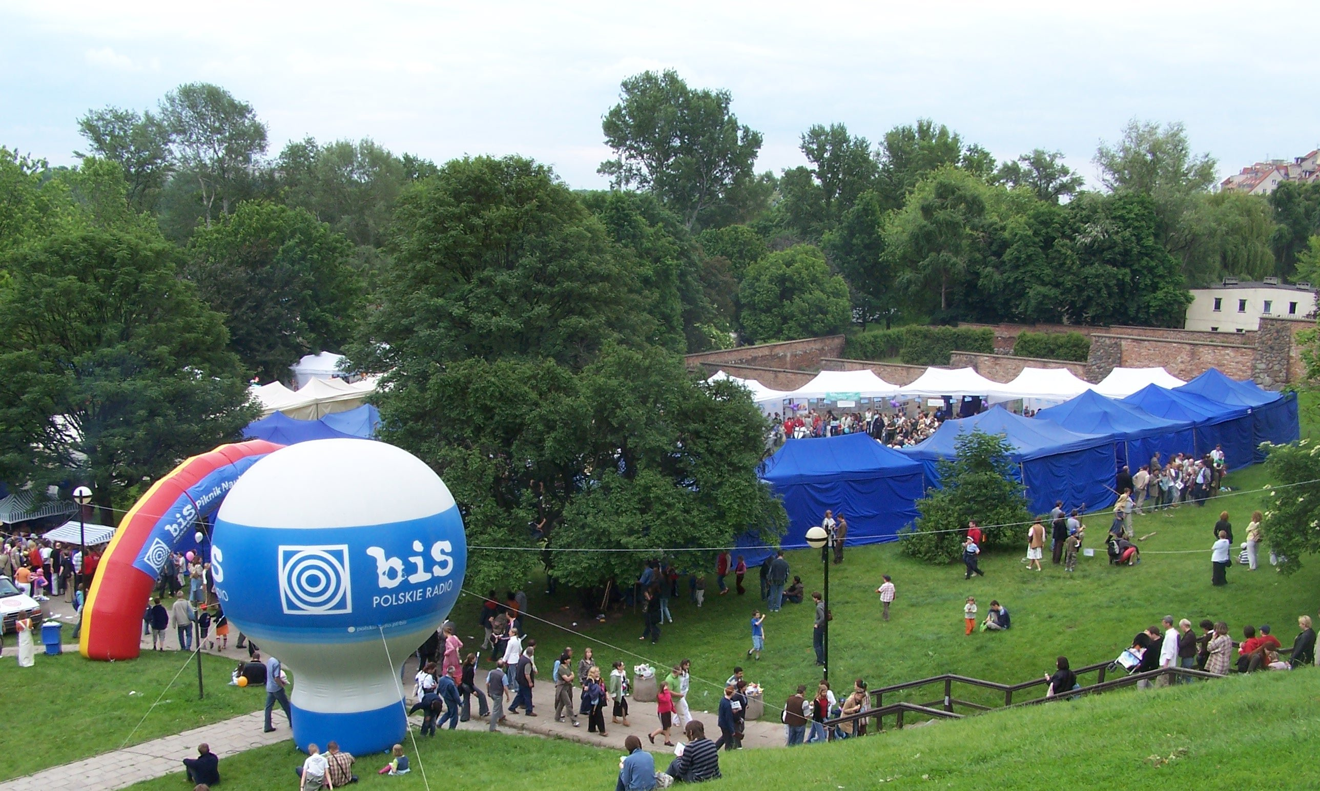 Radio Bis Science Picnic - annual science festival in Warsaw organised by Polish Radio Bis. Date: 2006/06/03